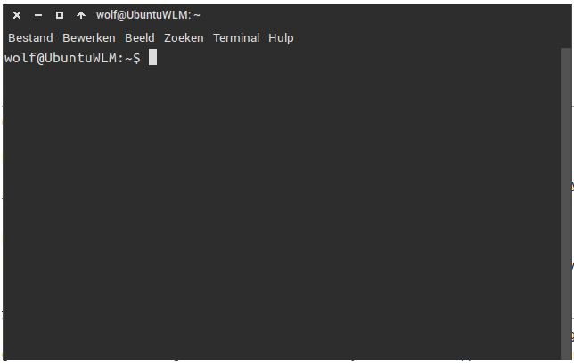 GNOME's terminal emulator, ran in Xubuntu 14.04